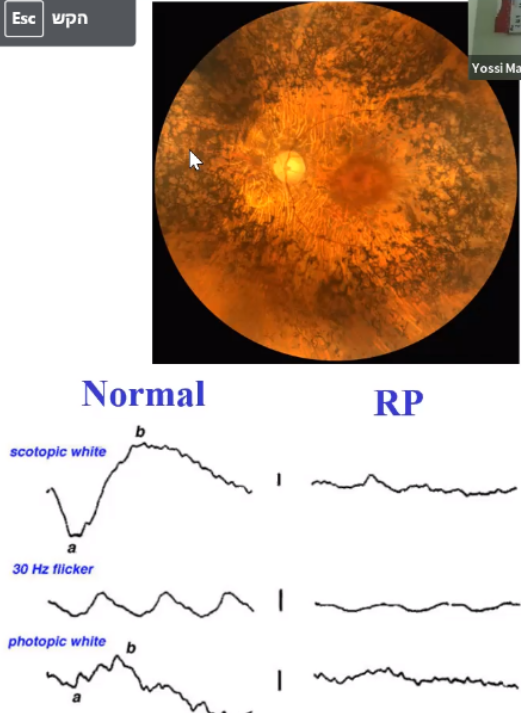 retinitis pigmentosa.fundus and erg